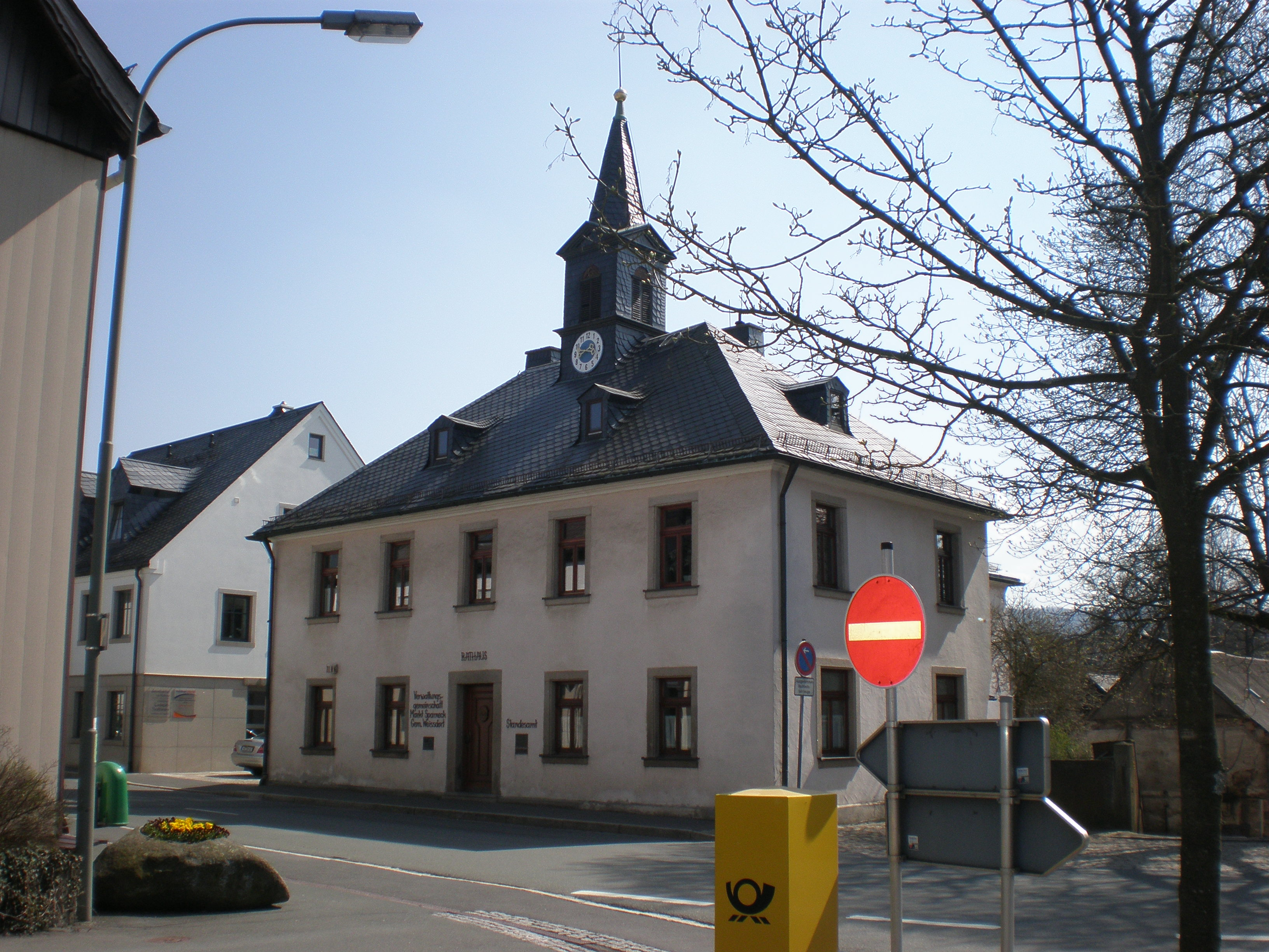 The townhall in Sparneck.